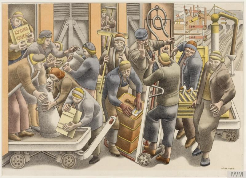 A group of women in overalls and other work wear unloading goods & cargo from wheeled trolleys.